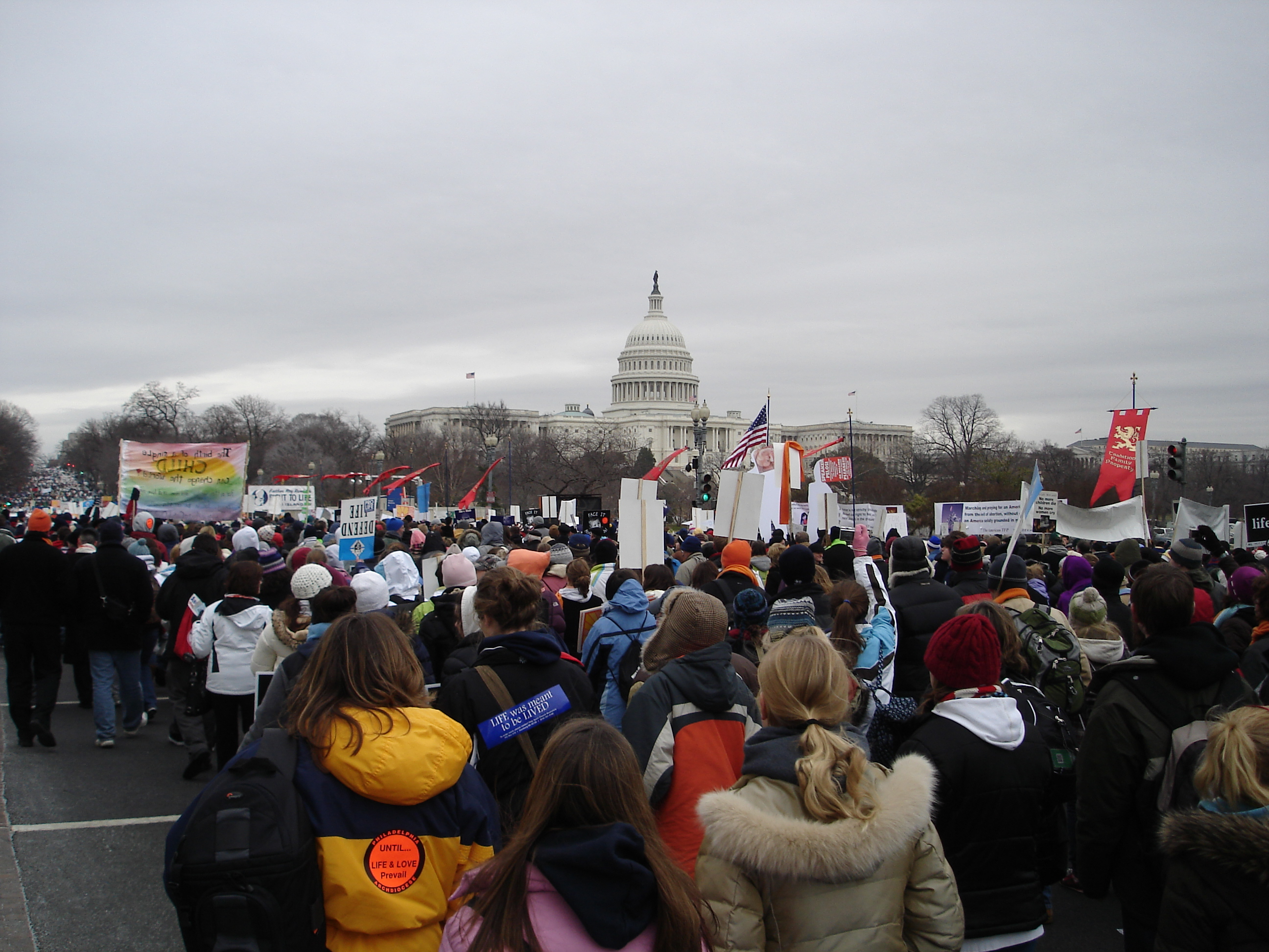 Pro-Life, March For Life 2008 US Capitol, US Supreme Court, Washington, D.C., Constitution Avenue